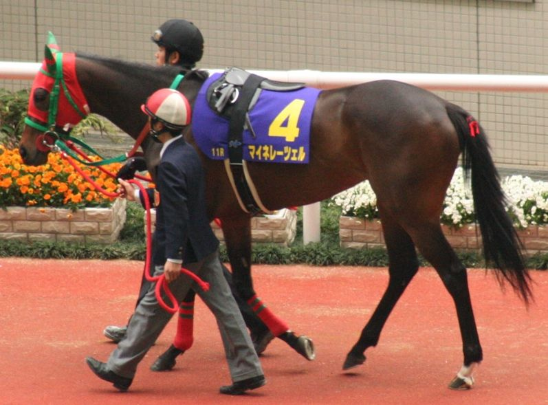 Meine Ratsel